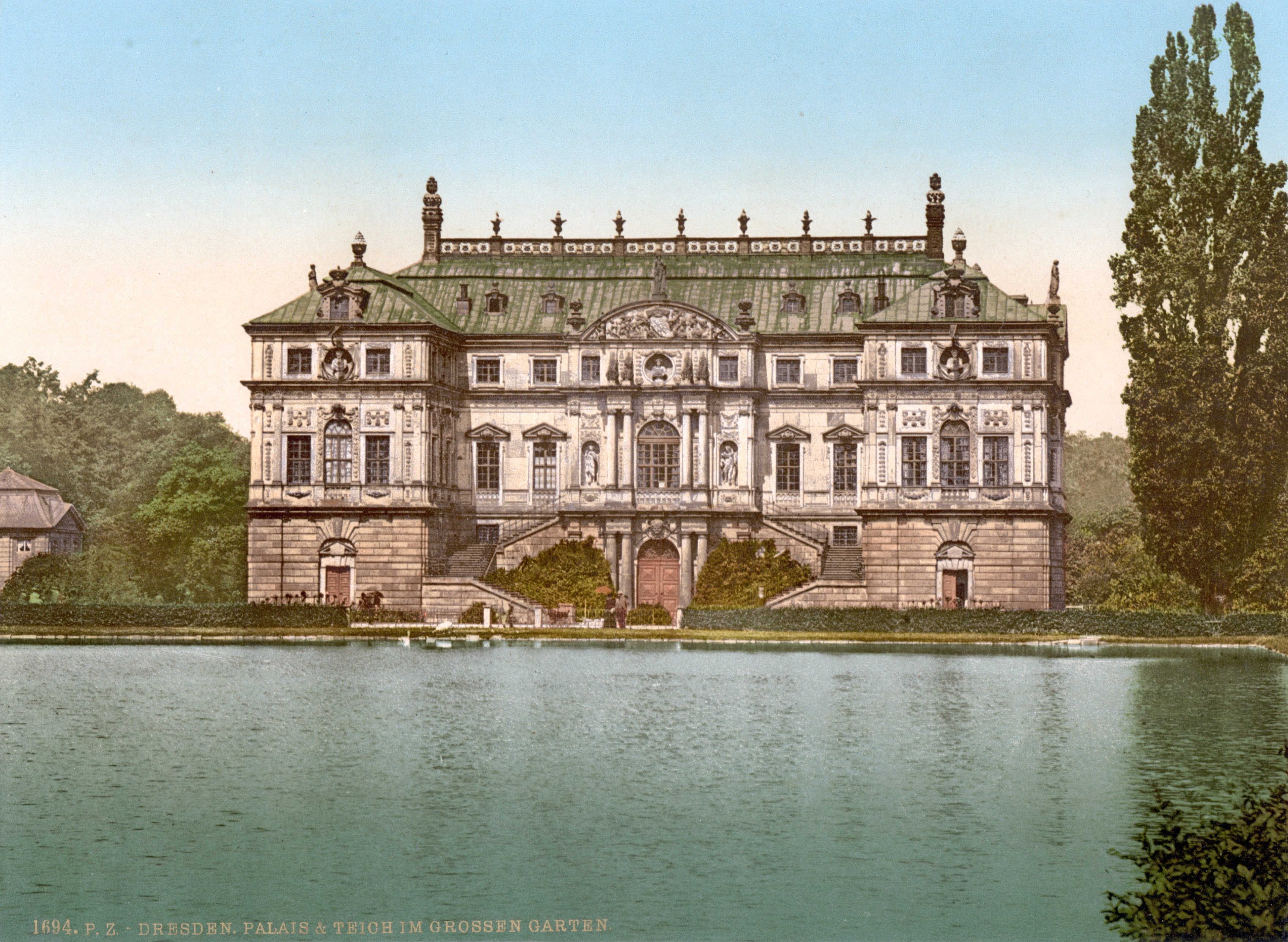 Dresden (Saxony, Germany) - Großer Garten Palais (big garden palace)